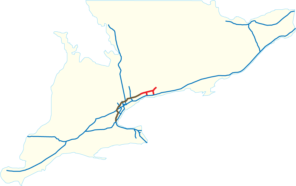 Planned extensions to Highway 407.